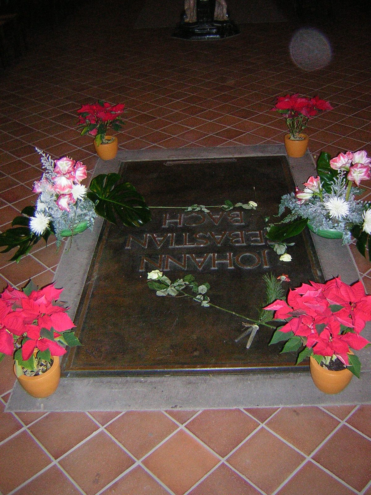 This image has been taken by Wikipedia-ce in late december of 2005 and is public domain. It shows the J.S. Bach grave plate in the center of the church St. Thomas in Leipzig, Germany. If someone could offer a better picture, mainly taken from the other side (there was a barrier as I took this photo) please feel free to replace this one. I'd ask to update the article Johann Sebastian Bach if necessary.